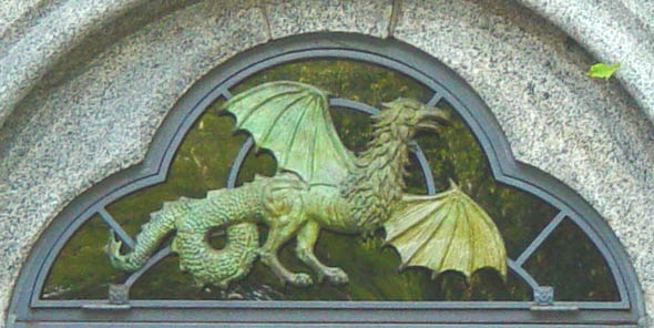 Cockatrice as architectural embelishment, part of a transom over a doorway. This is not a dragon. At Belvedere Castle, Central Park, New York City, NY, USA. Image by User:Leonard G..